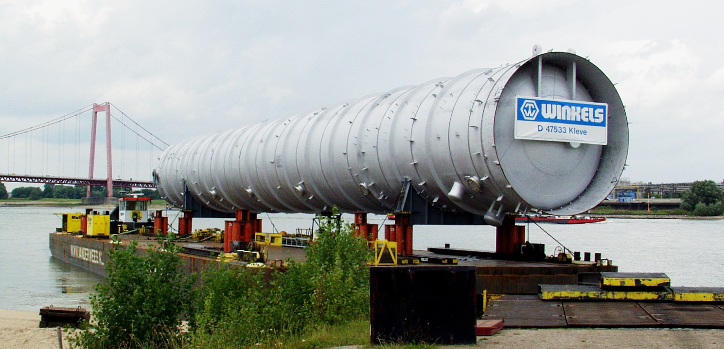 Heavy load of a column on water at Emmerich, Germany